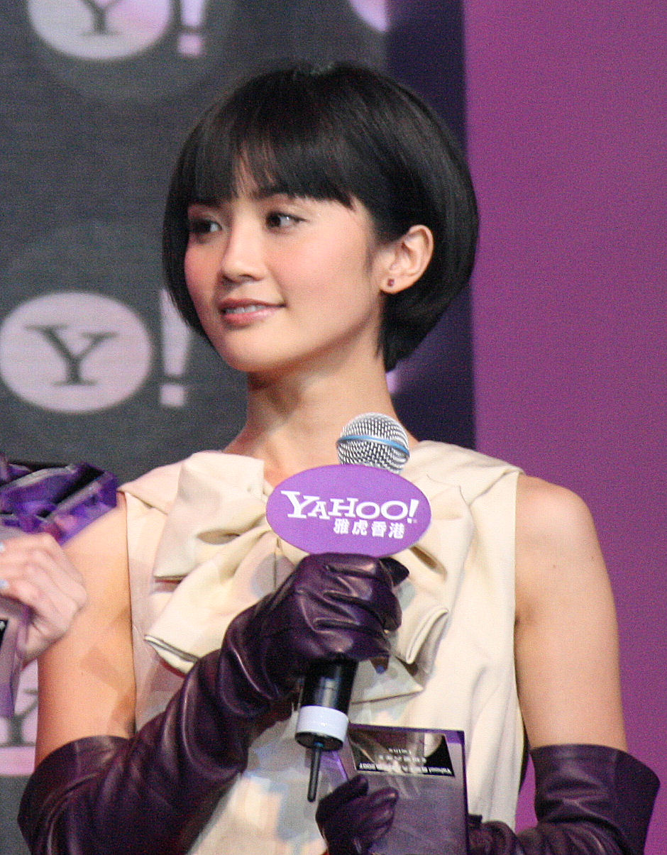 Twins, Charlene Choi (cropped image)